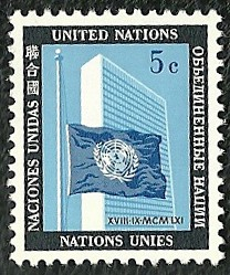 United Nations postage stamp